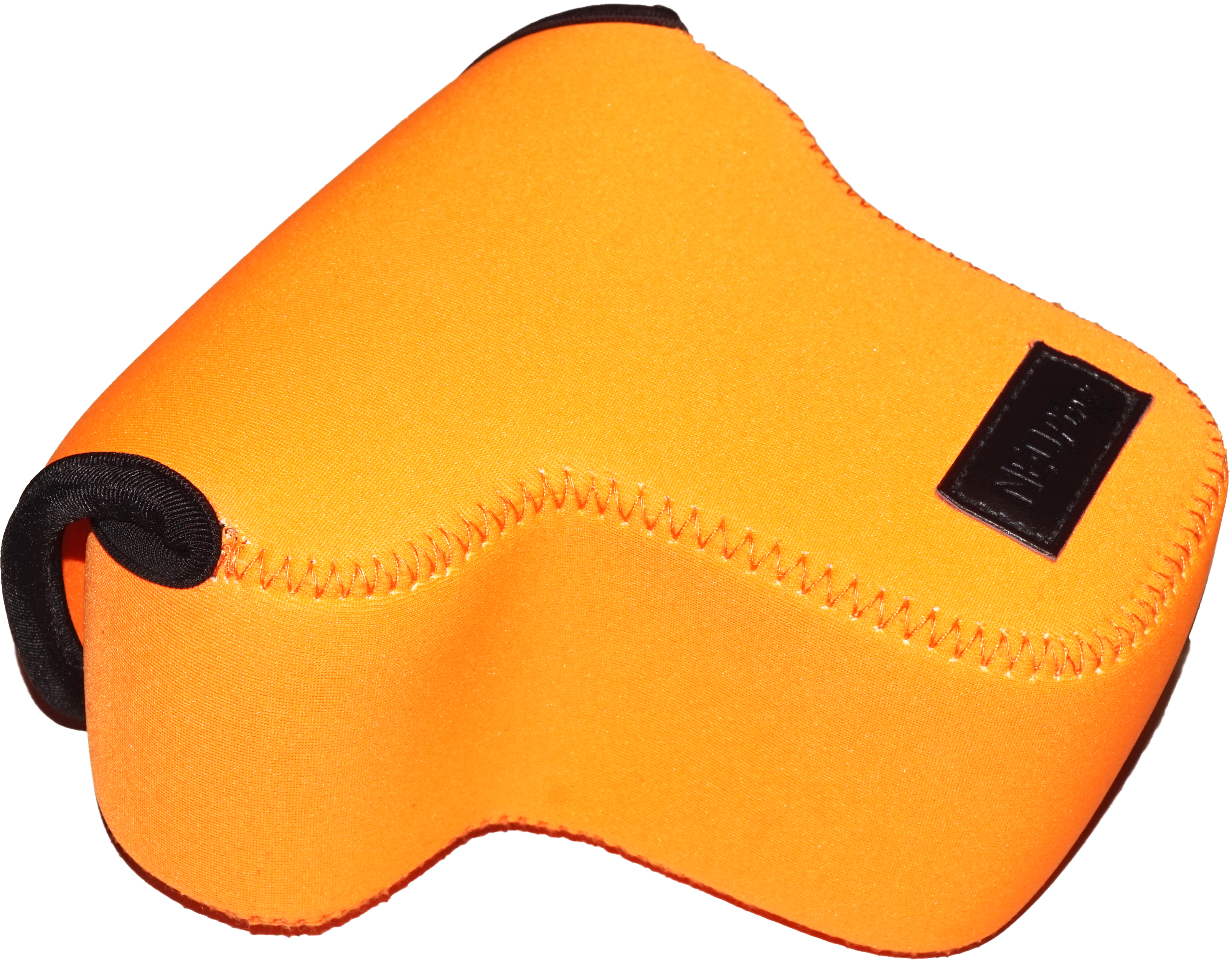 An orange camera case made of neoprene. This photograph was taken with a Sony Alpha a5000.